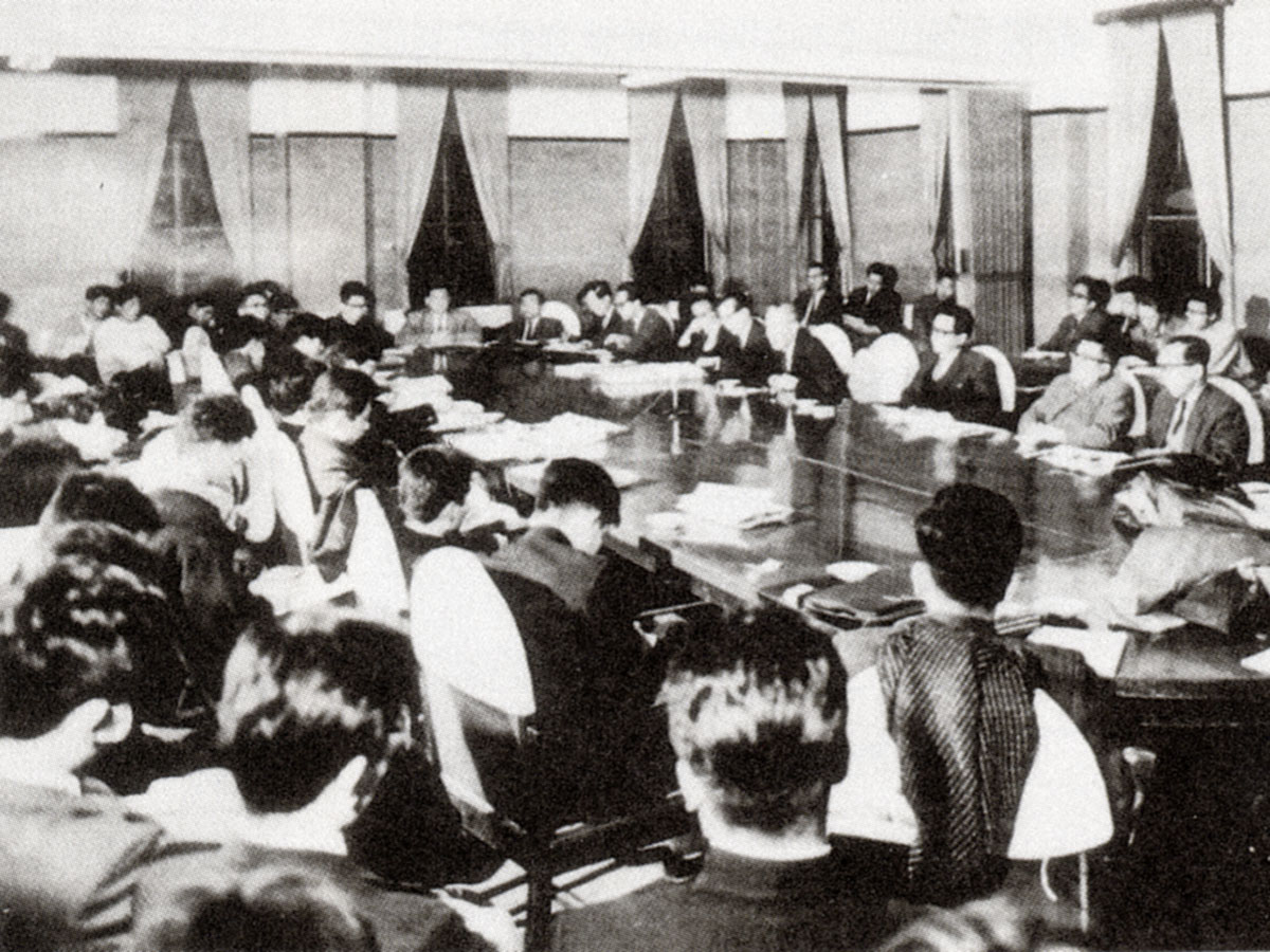 Ritsumeikan University Plenary Council, Hirokoji-dori Kawaramachi Nishi-iru Kamikyo-Ku Kyoto-City Kyoto Japan.